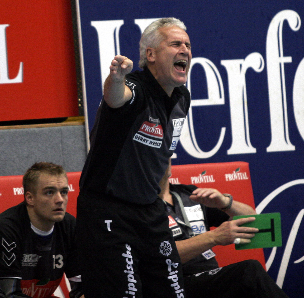 Peter Meisinger, coach of the handball club TBV Lemgo (Germany), in the Lipperlandhalle during the game TBV vers. Wilhelmshavener HV on October 13th, 2007